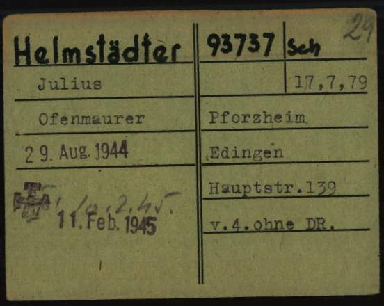 Registration card of Julius Helmstädter as a prisoner at Dachau Nazi Concentration Camp. The penciled and the stamped crosses signal the day of his death; the 1-day difference may be due to the fact that he would have died on the night from the 10th to the 11th of February.